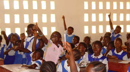 Second graders in a primary school after it was rebuilt after being damaged in the Sierra Leone Civil War. In Koidu Sierra Leone